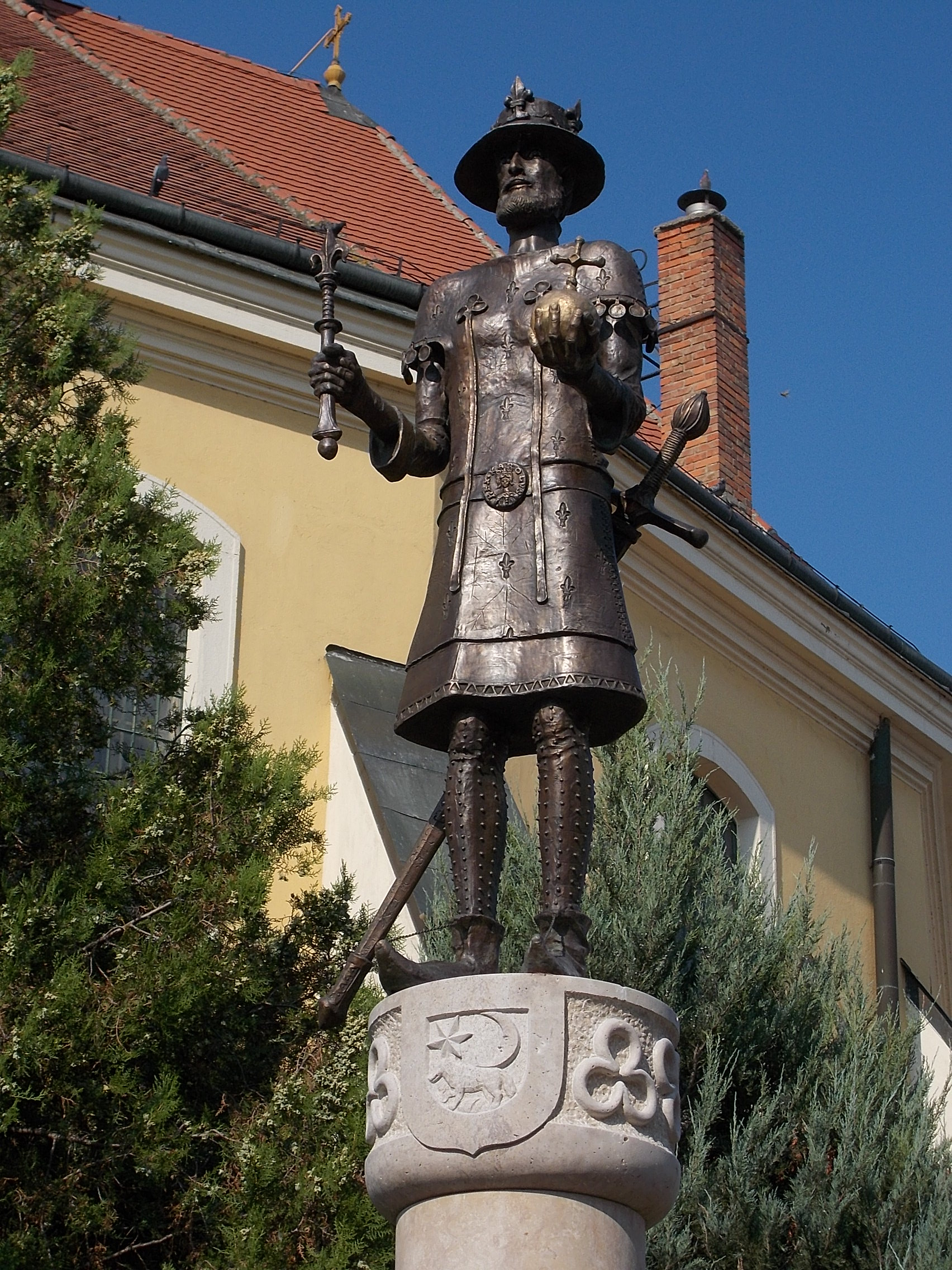 Róbert Károly statue by Pál Kő, 2015 works, bronze statue on limestone column. - Szent Bertalan St., Gyöngyös, Heves County, Hungary.